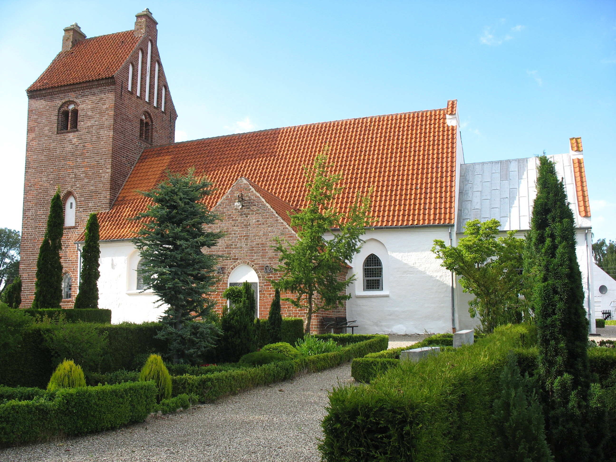 The church "Tune Kirke" in the small town "Tune", located in North East Zealand, east Denmark.